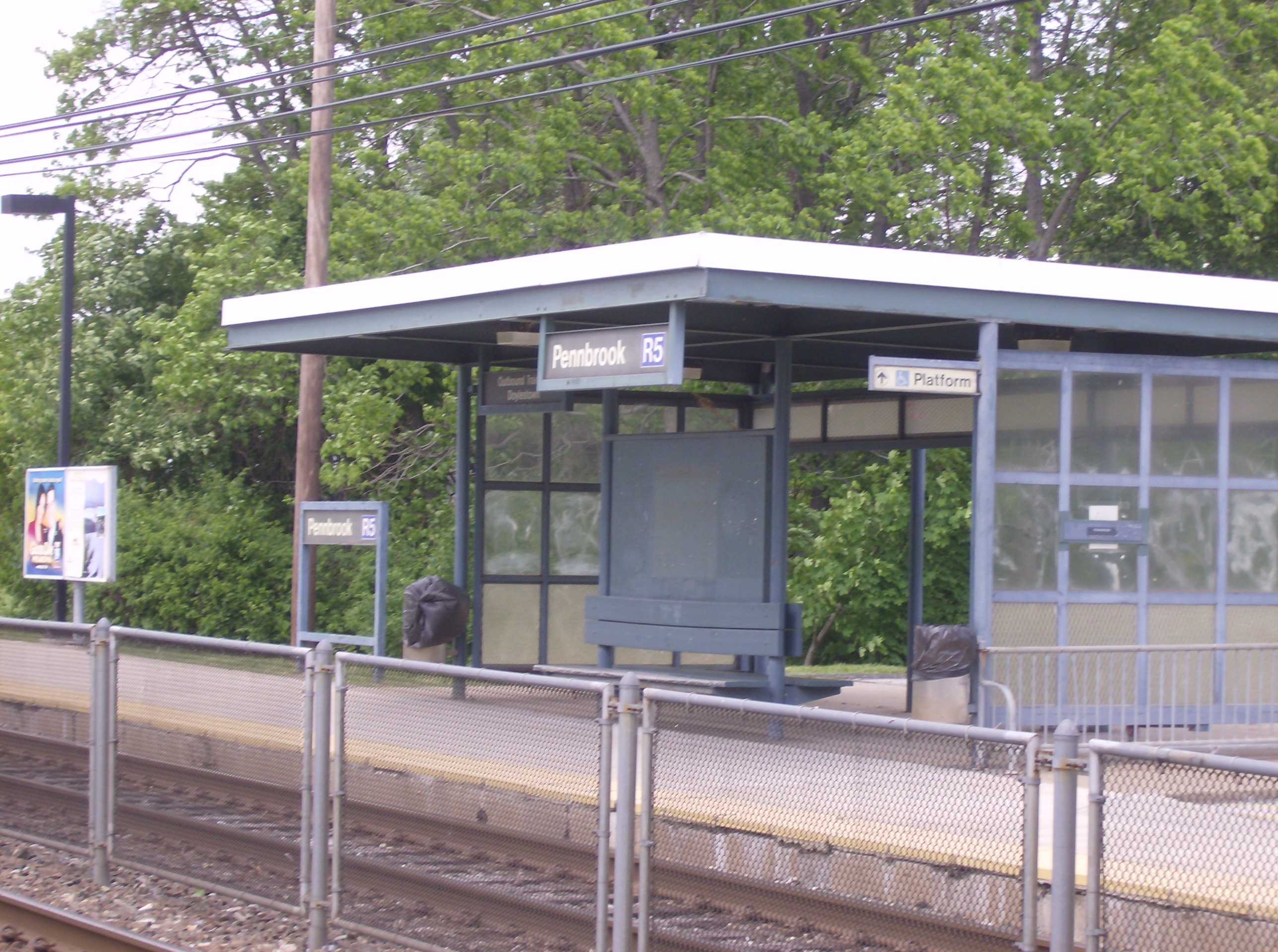 A sheltered platform at Pennbrook station